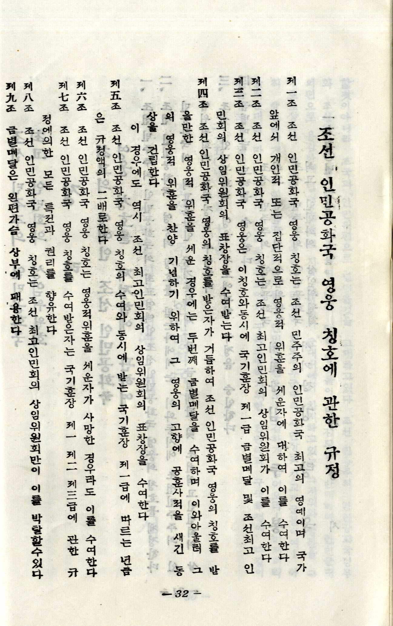 Official "The Hero of the DPRK" regulation, 1950